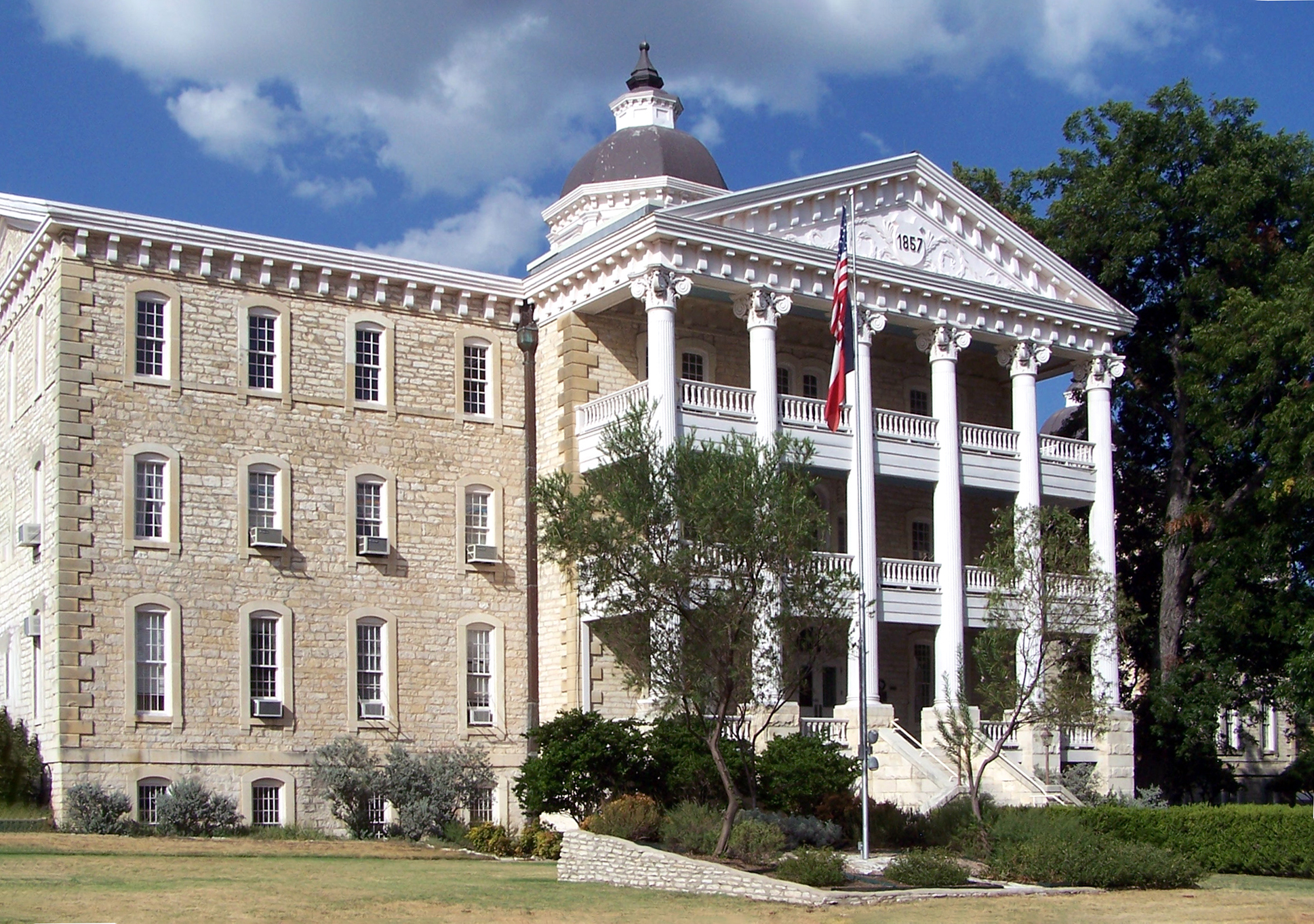 Austin State Hospital - The State Lunatic Asylum, located in Austin, Texas, United States, is now the administration building for the Austin State Hospital campus. The building was designed by architect Elijah E. Myers and built in 1857. It was designated a Recorded Texas Historic Landmark in 1966 and listed on the National Register of Historic Places on December 4, 1987.